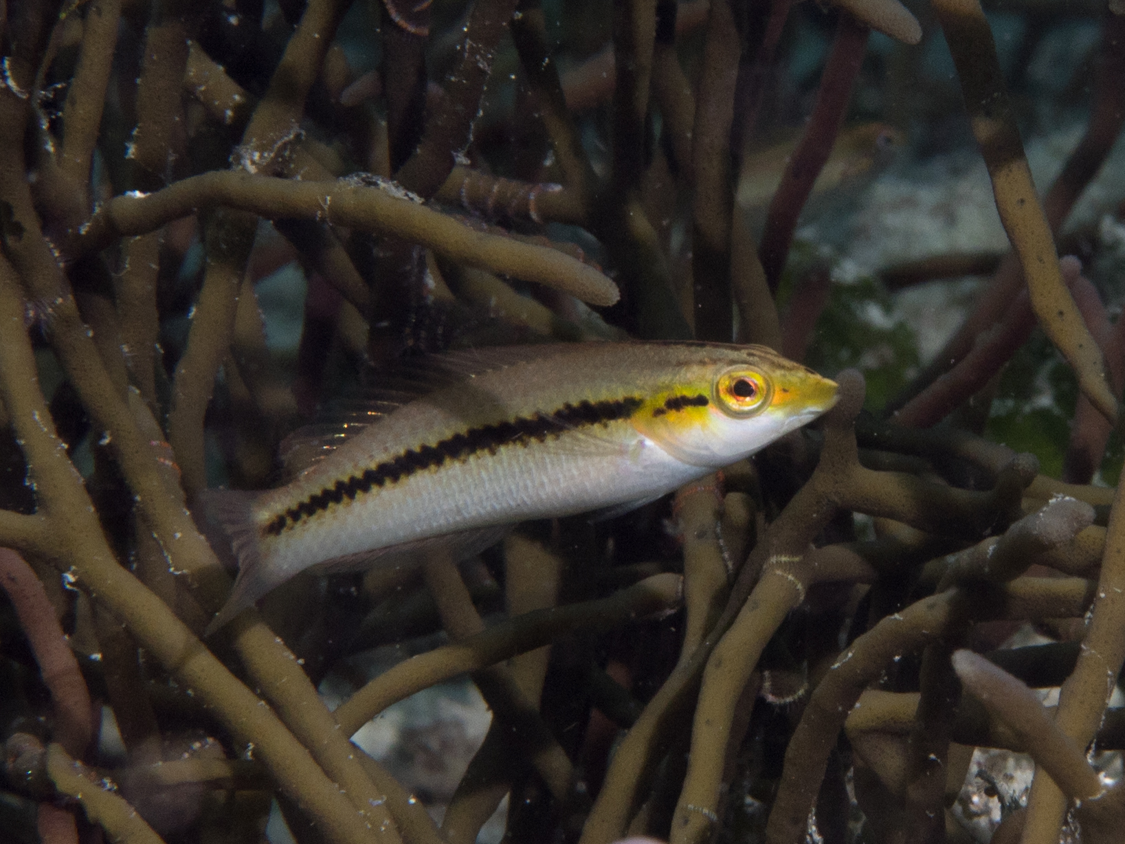 Romblon, Philippines - Zigzag wrasse initial phase (Halichoeres scapularis)